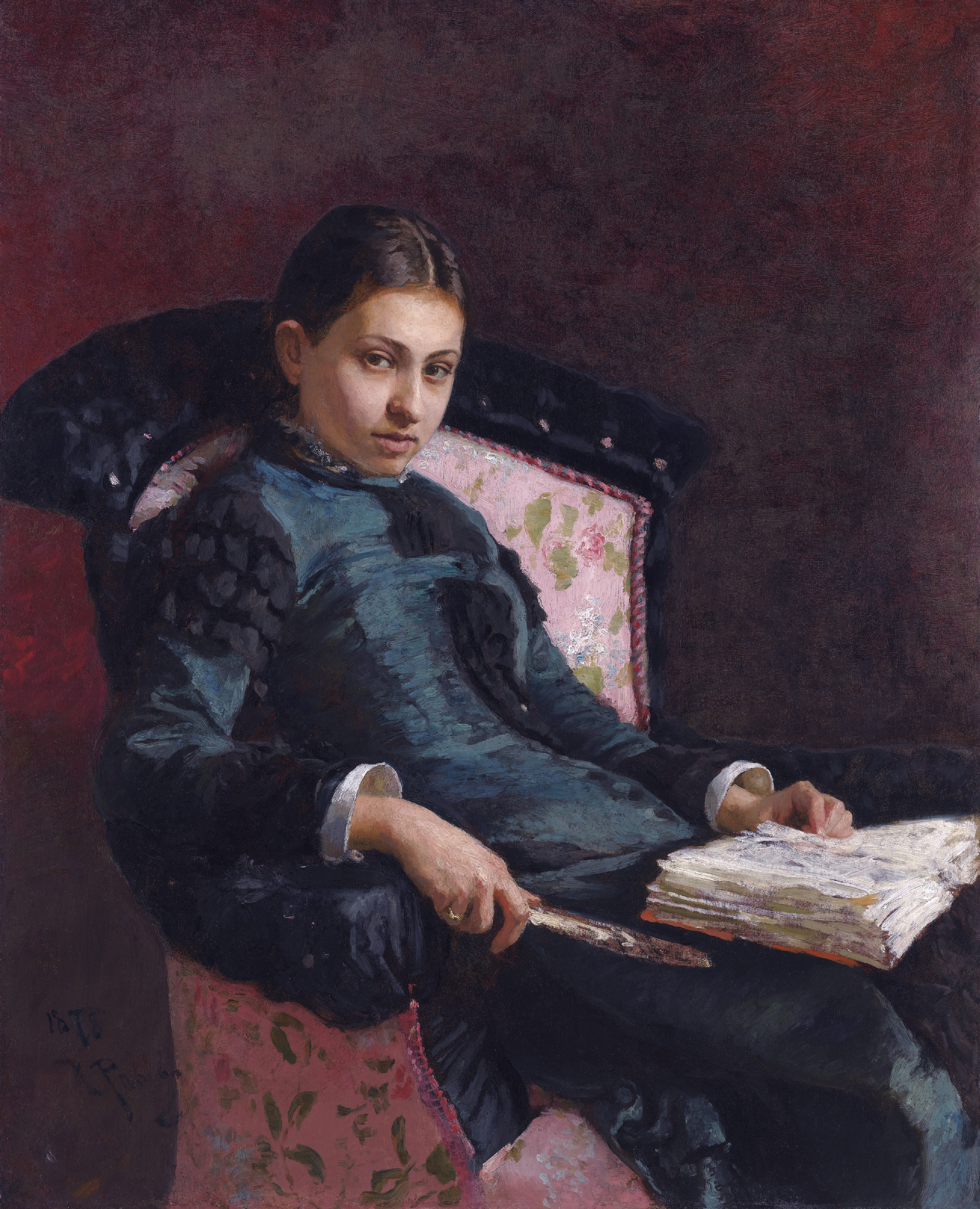 Portrait of Vera Repina, the Artist's Wife by Ilya Repin, 1878